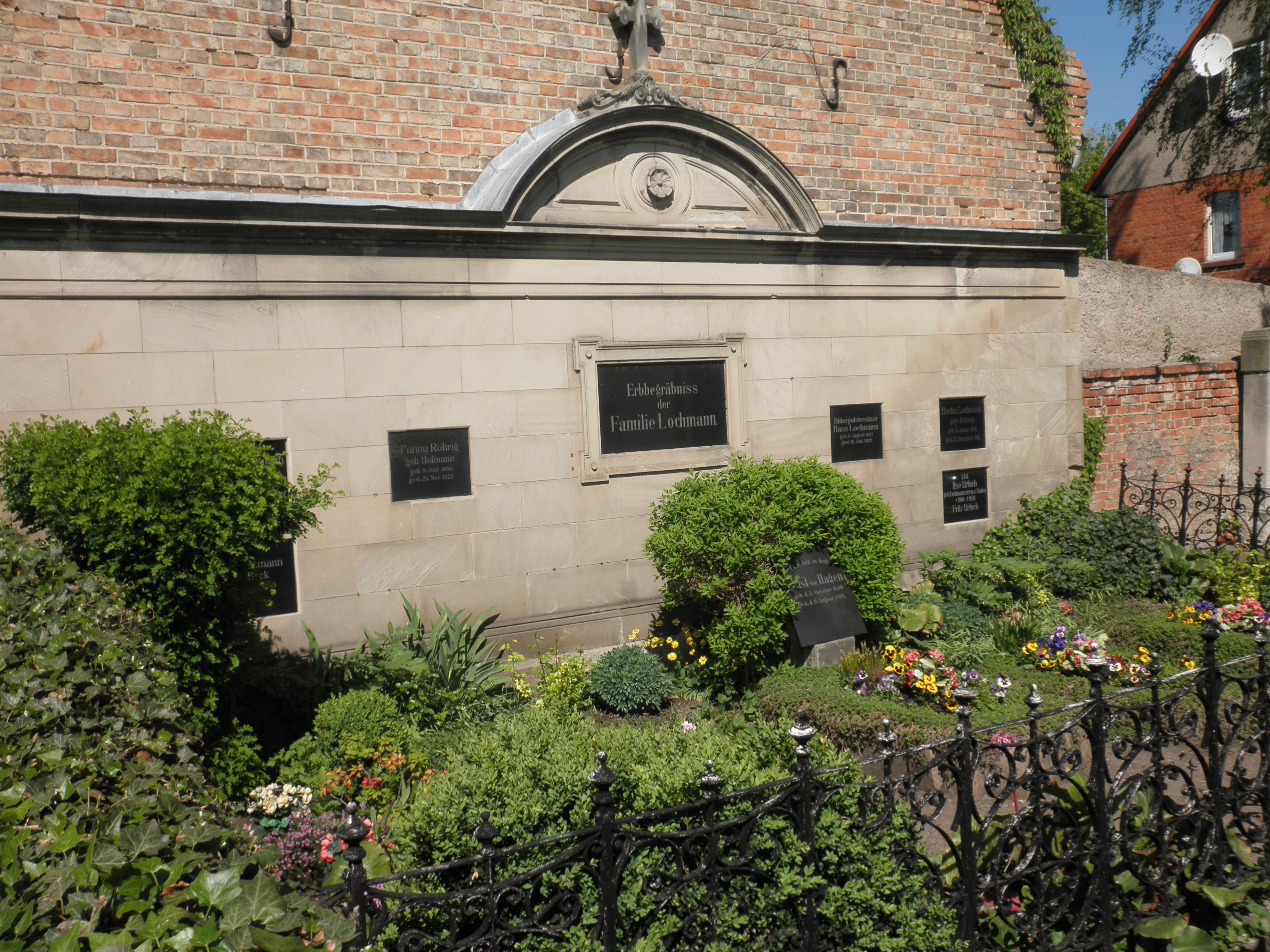 Burial Place in Wallichen in Thuringia